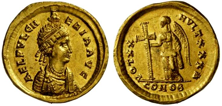 Aelia Pulcheria, sister of Theodosius II and wife of Marcian. Died 453.